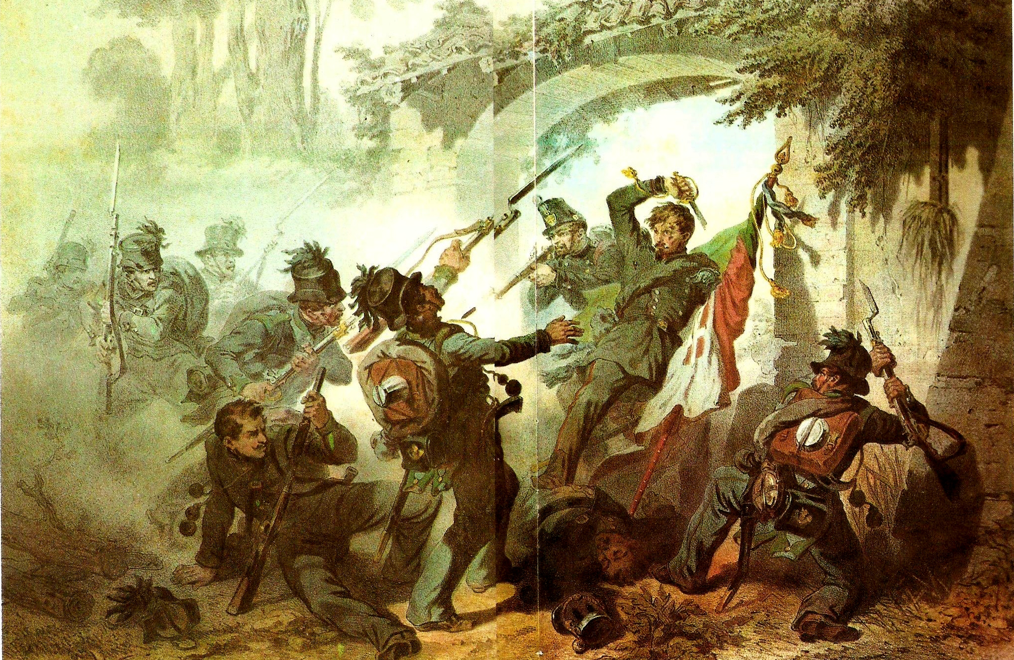 the battle of Novara, 1849